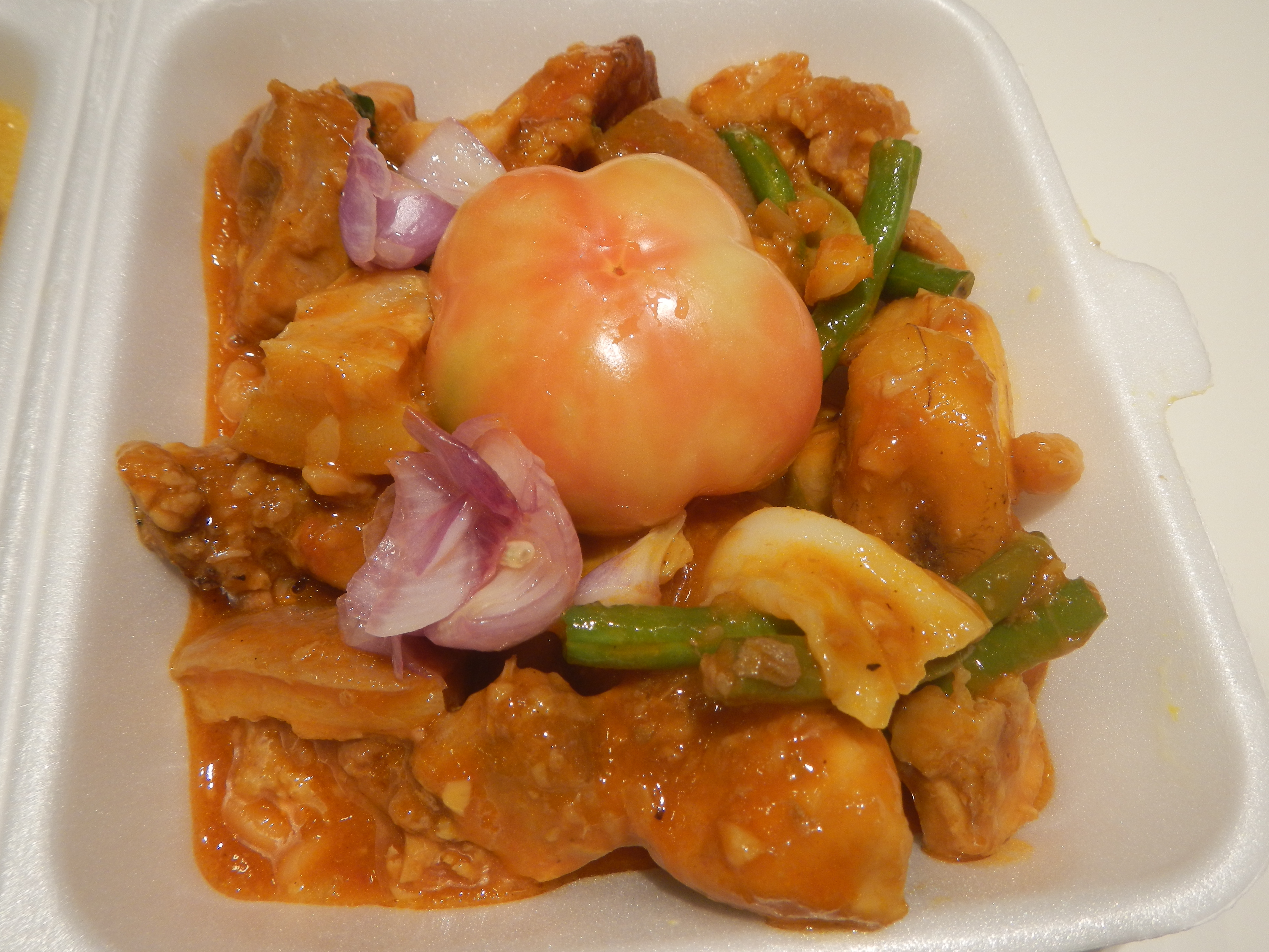 Mechado, Filipino pochero and Ginisang kalabasa sigarilyas Sigarilyas (Philipppines) (Note: Judge Florentino Floro, the owner, to repeat, Donor Florentino Floro of all these photos Judge Floro hereby donate gratuitously, freely and unconditionally Judge Floro all these photos to and for Wikimedia Commons, exclusively, for public use of the public domain, and again without any condition whatsoever).